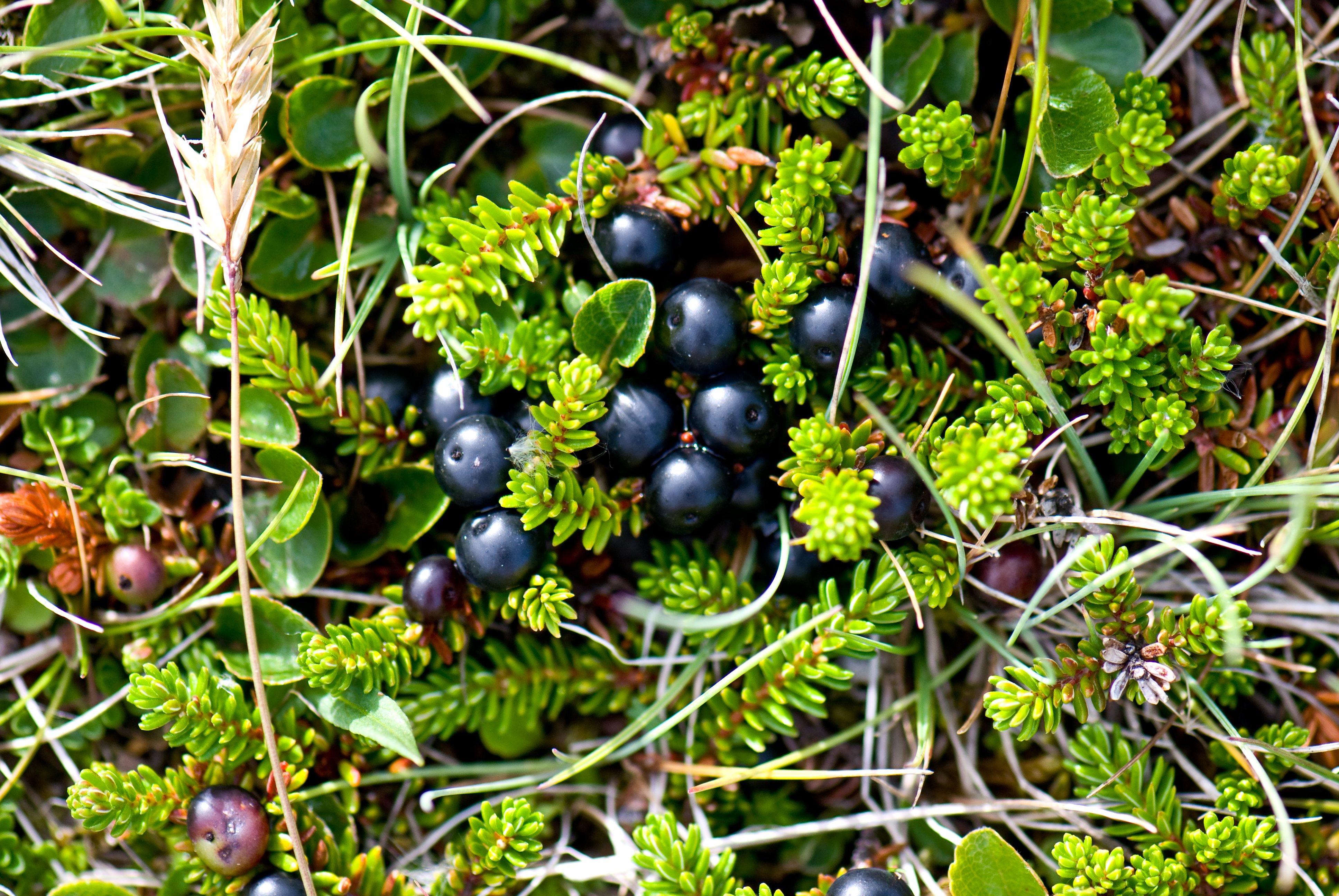 Crowberries (Empetrum nigrum) taken on Heimay, Iceland